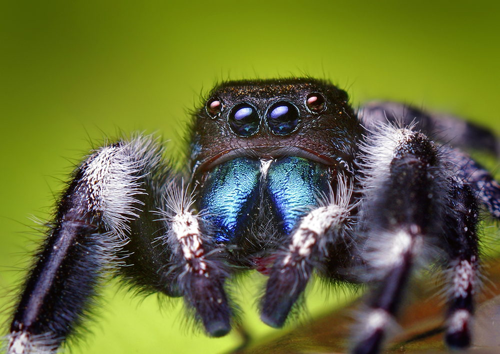 Flickr description: "A photo of the same Phidippus audax male that I posted a while back. ... Even if it's not as sharp as usual, it is a good representation of the size of the chelicerae, the palps, and the ornamental tufts of white hair on the front legs."